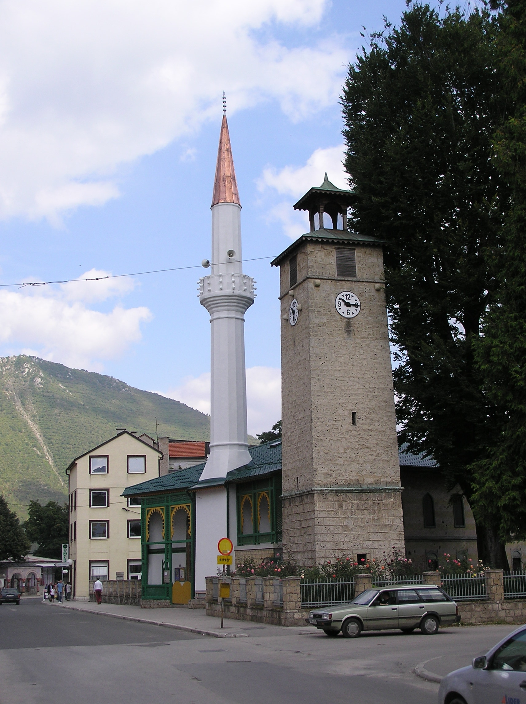 Sahat Kule, Clock Tower Author: Mehmet E Yavuz